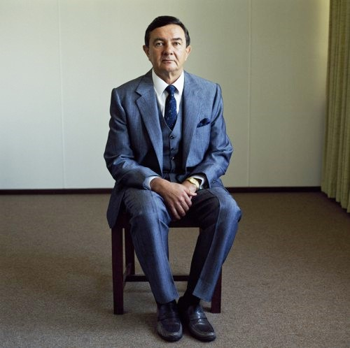 Portrait of Stoffel Botha, National Party politician and Minister of Home Affairs (1985-1989). Cape Town, Western Cape.